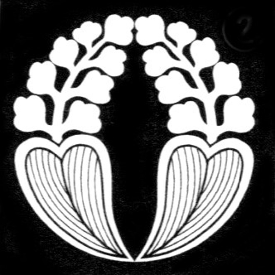 Crest of Tamura family, Japan